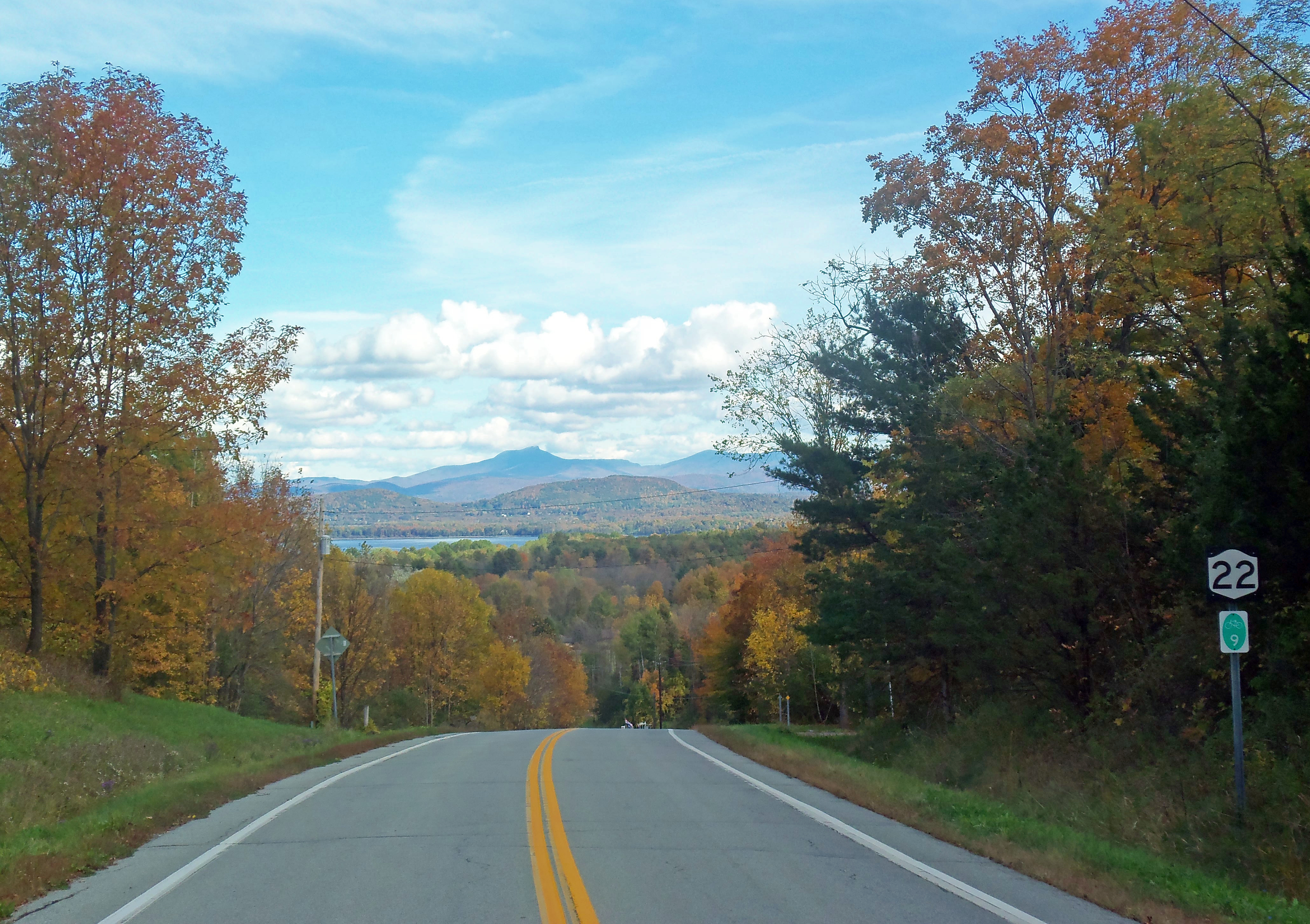 View of Lake Champlain and Camel's Hump in Vermont from NY 22 west of Essex